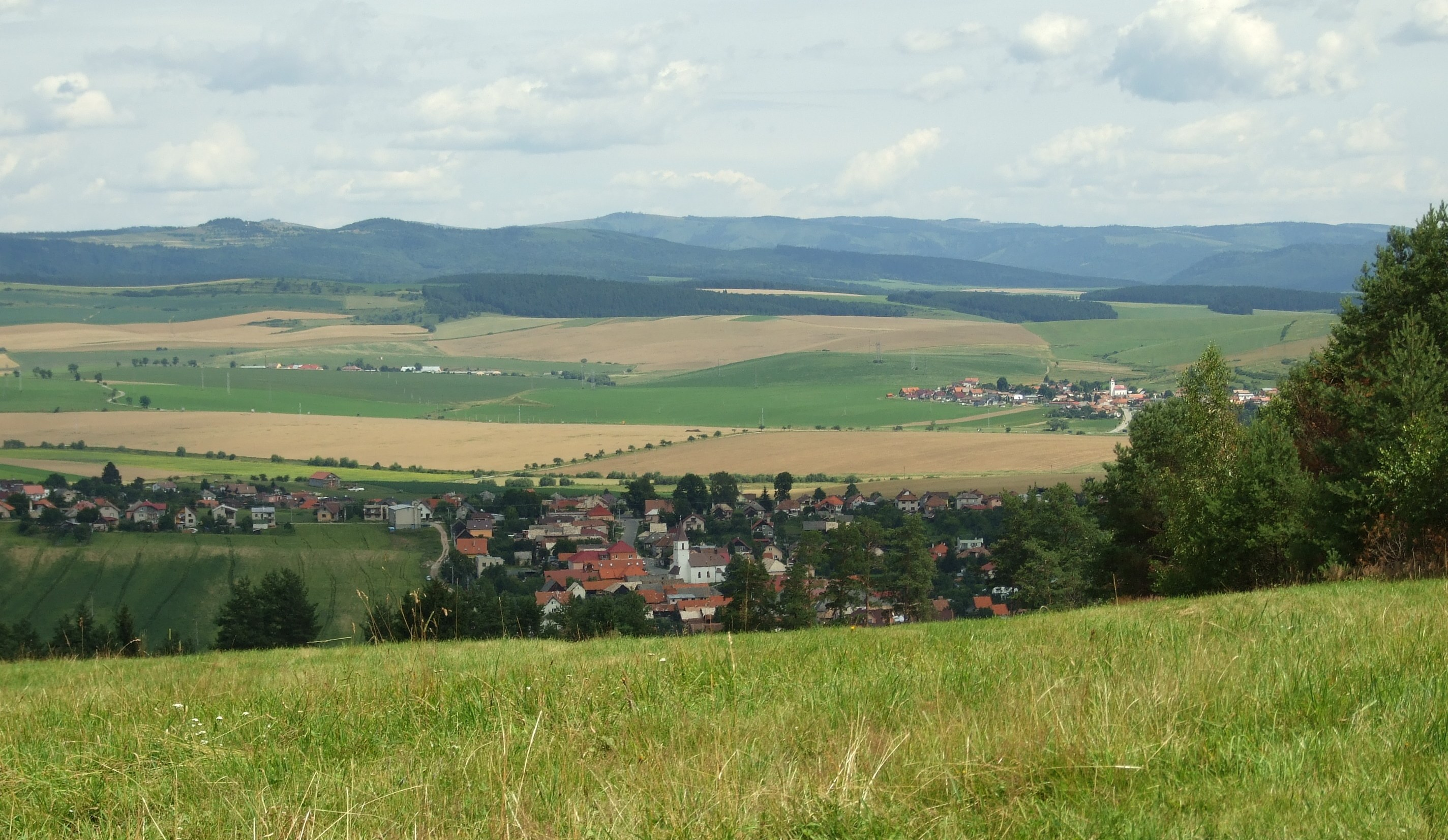 Spišské Tomášovce village seen from Slovenský raj national park, Košice Region, SKhelp